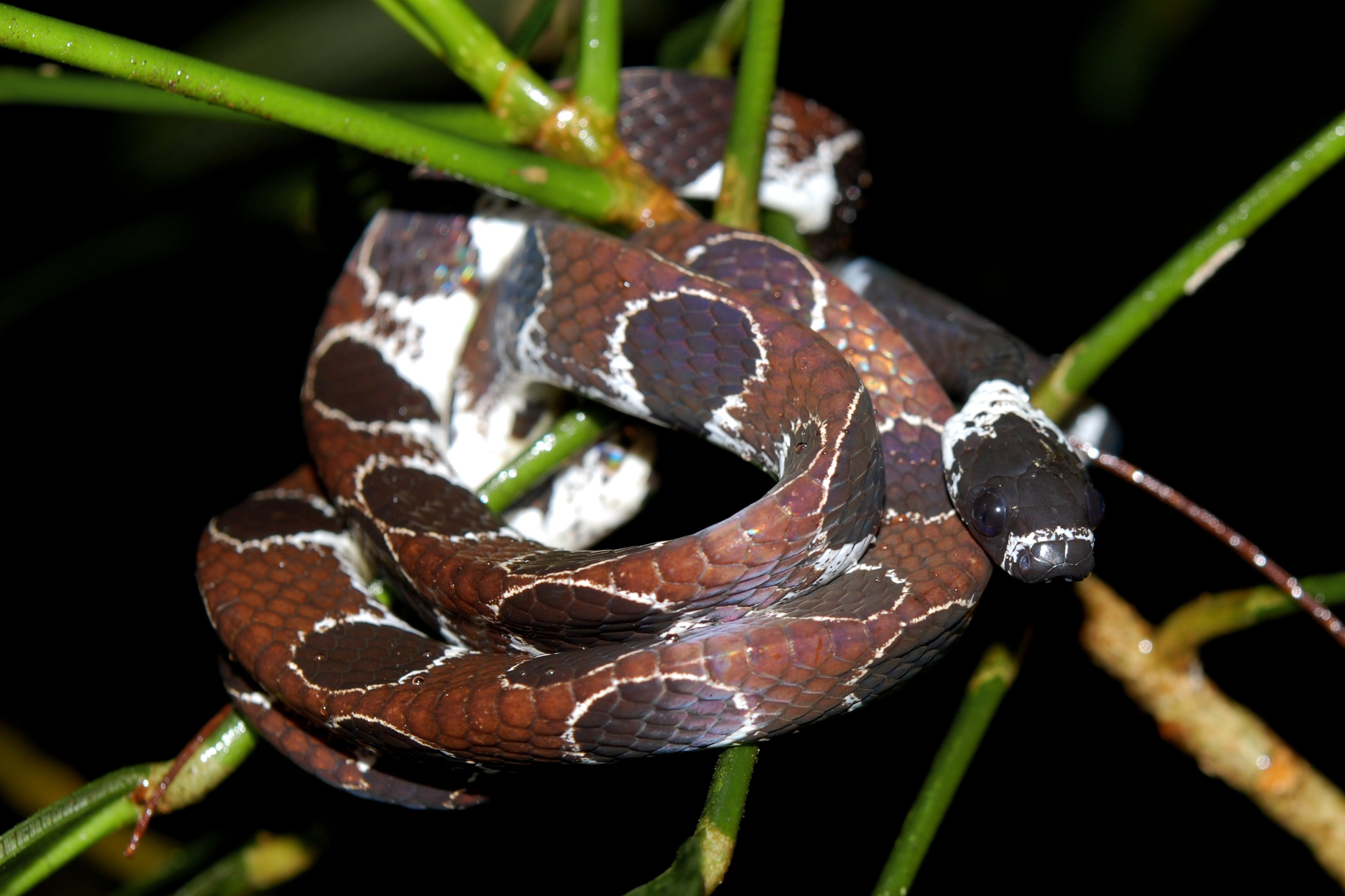 Colubridae: Dipsas catesbyi Found in Yasuni National Park, Ecuador.